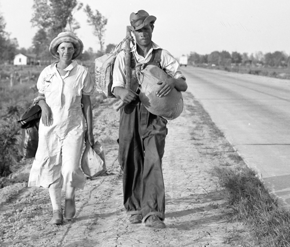 Carl Mydans photographer, Farm Security Administration. The caption is a reference to the original file in the Library of Congress photo archive. Find the original tiff image by searching the archive with this number. Title: "Damned if we'll work for what they pay folks hereabouts." Crittenden County, Arkansas. Cotton workers on the road, carrying all they possess in the world Creator(s): Mydans, Carl, photographer Date Created/Published: 1936 May. Medium: 1 negative : nitrate ; 3 1/4 x 4 1/4 inches or smaller. Reproduction Number: LC-USZ62-128671 (b&w film copy neg. from file print) LC-USZ62-95444 (b&w film copy neg. from file print) Rights Advisory: No known restrictions on images made by the U.S. government; images copied from other sources may be restricted. For information, see U.S. Farm Security Administration/Office of War Information Black & White Photographs( Call Number: LC-USF34- 006322-D [P&P] Other Number: E 329168 Repository: Library of Congress Prints and Photographs Division Washington, DC 20540 USA Notes: Title and other information from caption card. LOT 1660 (Location of corresponding print). Transfer; United States. Office of War Information. Overseas Picture Division. Washington Division; 1944. More information about the FSA/OWI Collection is available at Subjects: United States--Arkansas--Crittenden County. Sharecroppers--Arkansas Format: Nitrate negatives. Collections: Farm Security Administration/Office of War Information Black-and-White Negatives Part of: Farm Security Administration - Office of War Information Photograph Collection Bookmark This Record